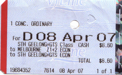 V/Line rail ticket, with Metcard and Geelong Transit System zones as well